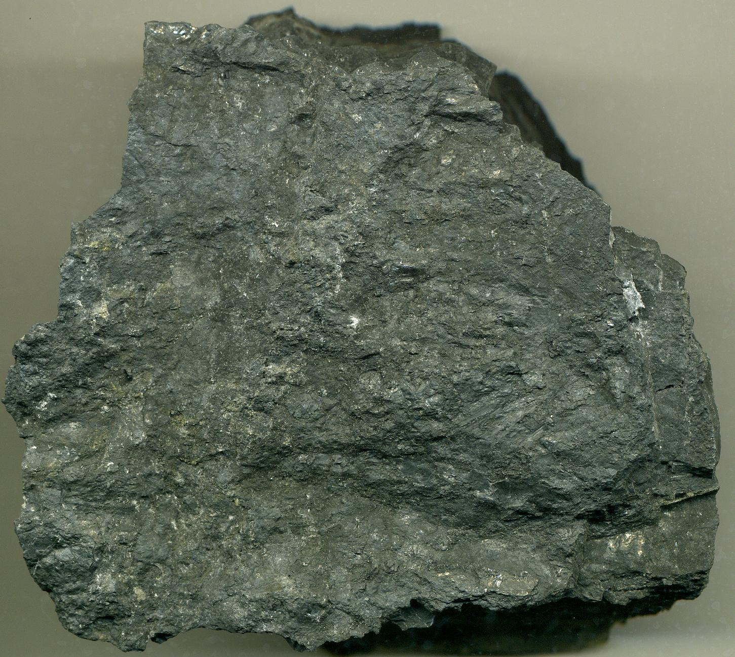 Twin Creeks Gold Ore (bedding plane view; 9.9 cm across) - this Carlin-type gold ore is from the Twin Creeks Mine. The lithology is an auriferous, silicified-decalcified siltstone/mudstone deriving from the Comus Formation (Lower Ordovician). The gold is finely disseminated and is too small to be visible to the naked eye. The rock comes from the Twin Creeks Gold Deposit, principally located in the nose of a fold. This ore grades to about 0.20 to 0.25 ounces of gold per ton of rock, which is “high-grade” for this particular mine. Locality: northern end of Twin Creeks Mine's Megapit, at about 800' below pit edge, just west of Rabbit Creek wash, ~8 km northeast of the Getchell Mine, northeast of Winnemucca, Potosi Mining District, eastern Humboldt County, northern Nevada, USA (41º 15’ 08” North, 117º 10’ 25” West). Geology & age of Carlin-type gold ores: 65% of America's gold production is from the famous Carlin-type gold deposits of northern Nevada. That’s about 6.5% of the world's gold production. About 200 million ounces of gold have been produced from a 200 x 300 km area in northern Nevada. Carlin-type gold deposits are hosted in sedimentary rocks and contain very finely disseminated gold. The gold is not visible (Au masses occur at the micron scale), but the gold content is high enough to make mining economic. Carlin-type gold ore rocks in northern Nevada are silicified and decalcified. The fluids responsible for this traveled along major normal faults in Nevada’s Basin and Range Province. The same fluids also introduced the gold into the rocks. As examples, two Carlin-type gold ores from adjacent mines in northern Nevada are shown below. Gold mineralization in this particular area occurred 39 million years ago, during the late Middle Eocene.